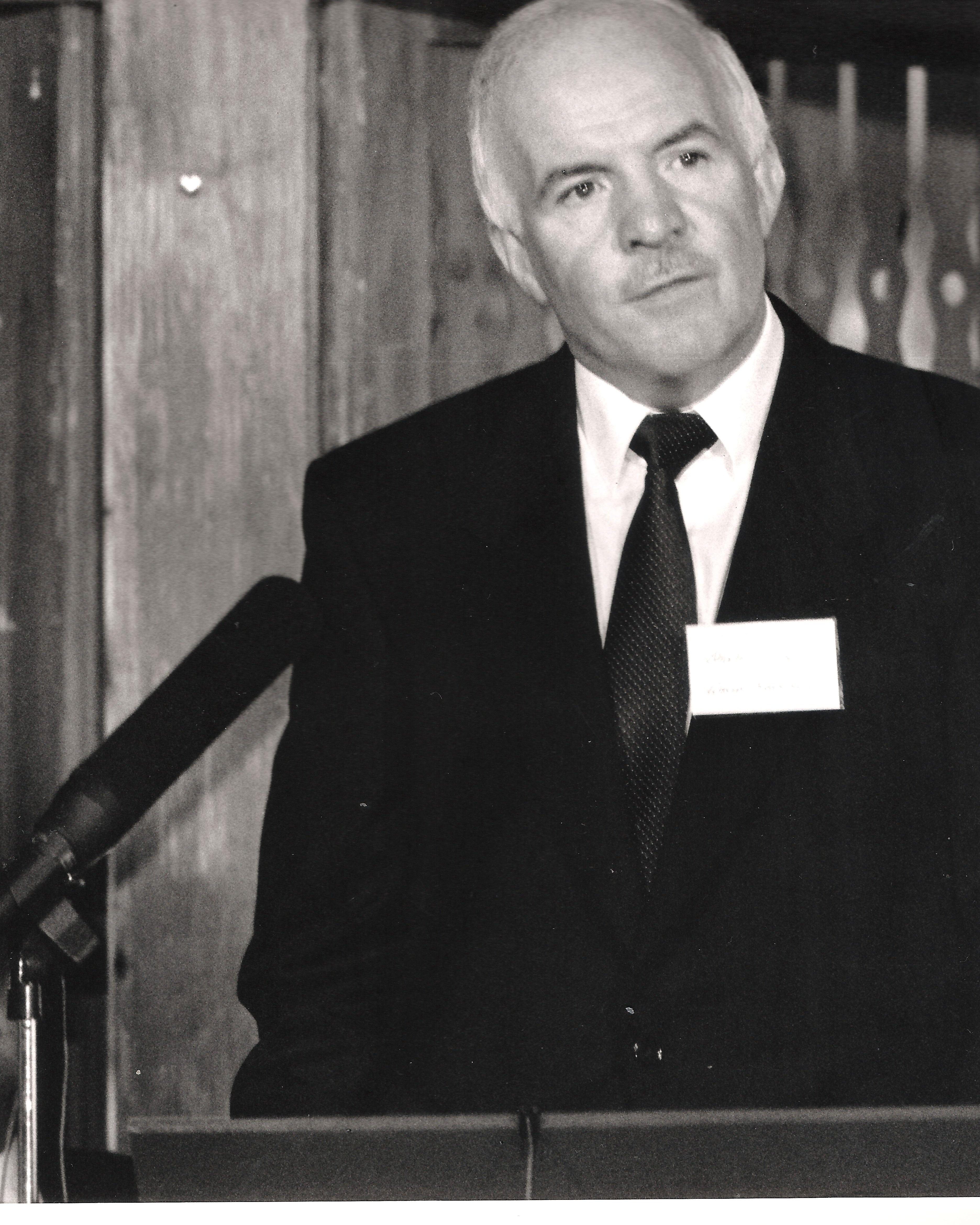 Stanley O'Toole speaking at a Warner Bros.-Village Roadshow conference in 1990